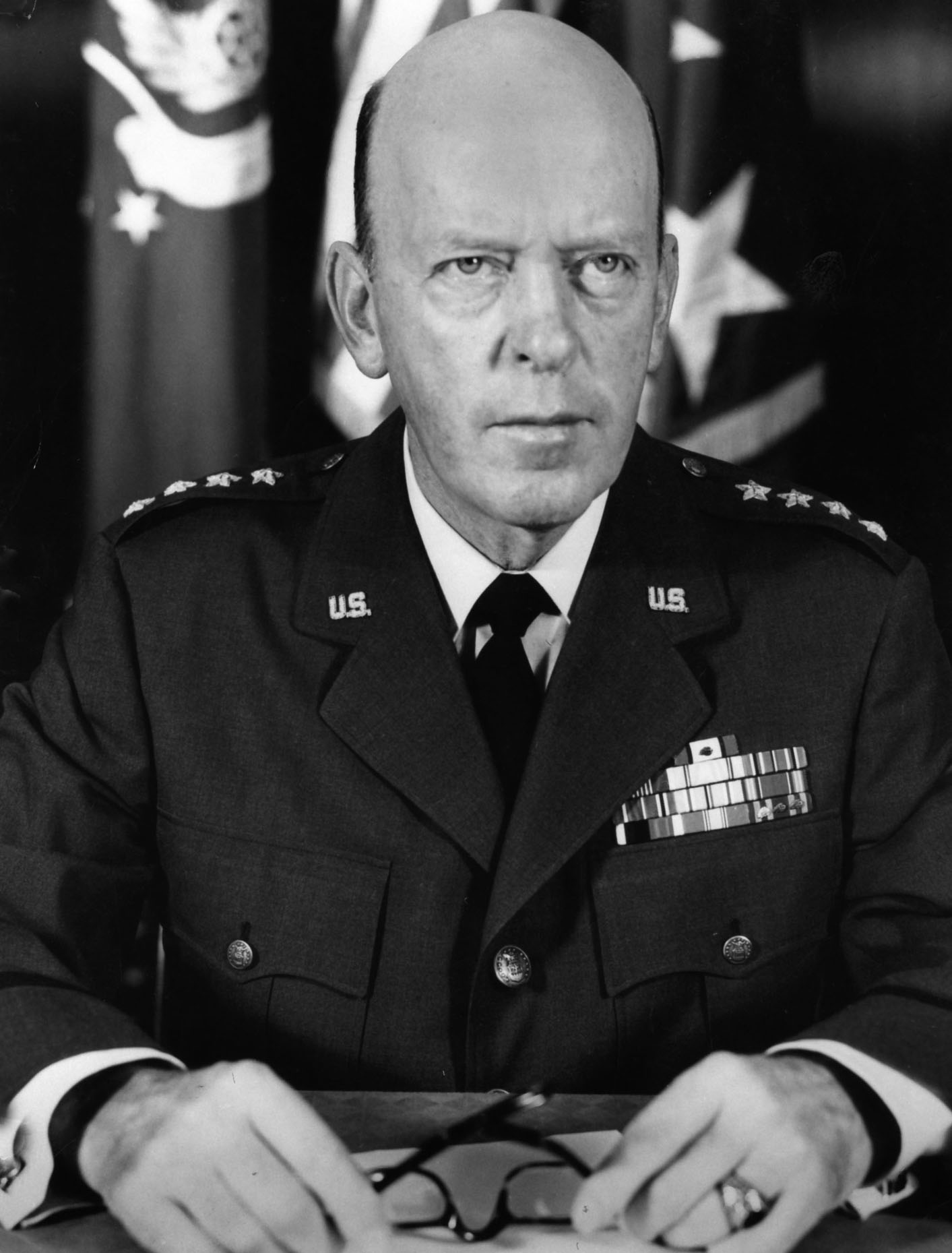 General William Fulton McKee